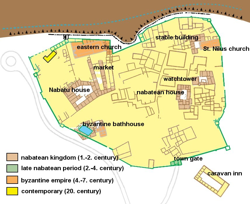 Map of the archeological site of Mamshit